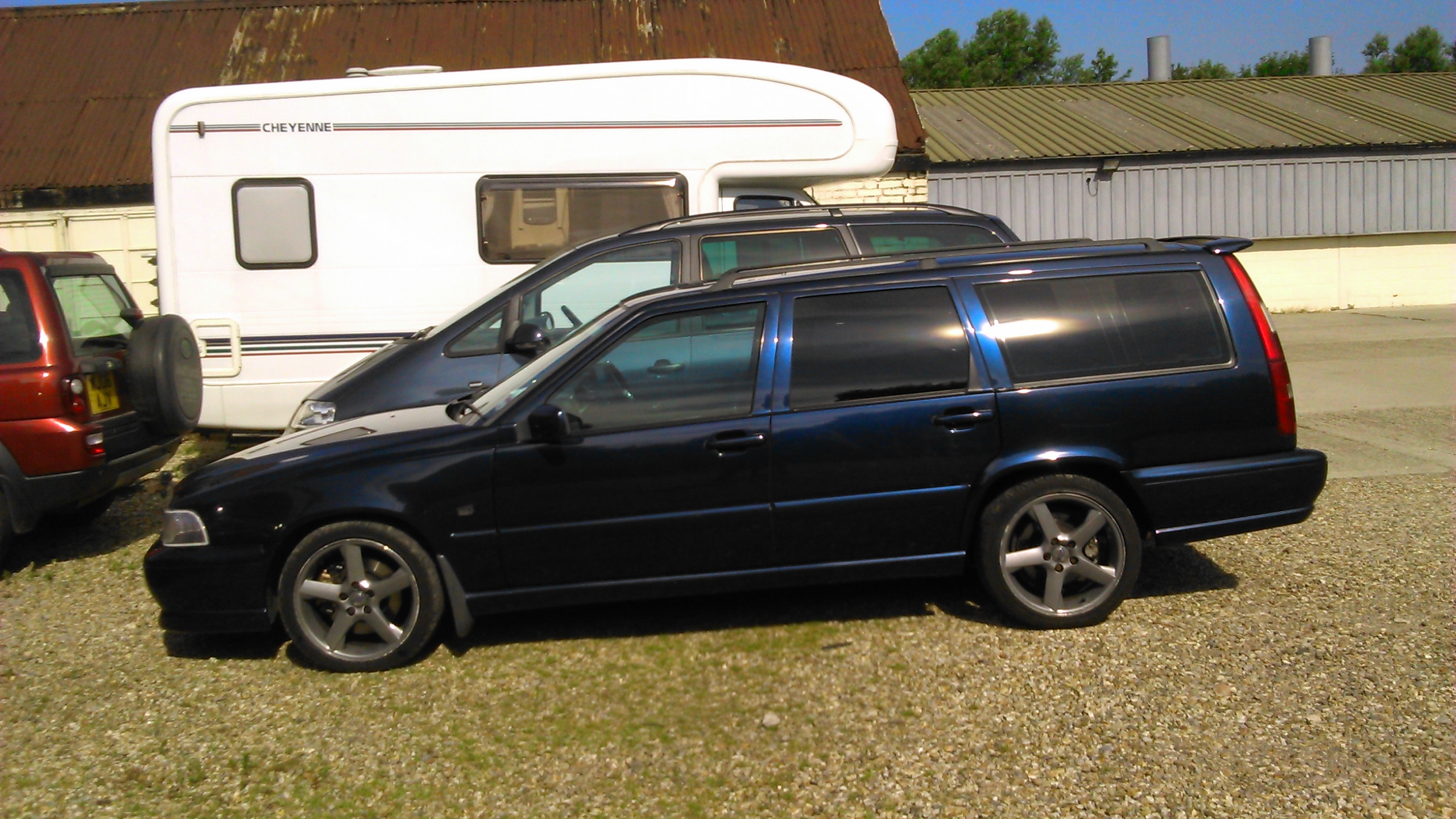 VOLVO V70 R 1997 UK